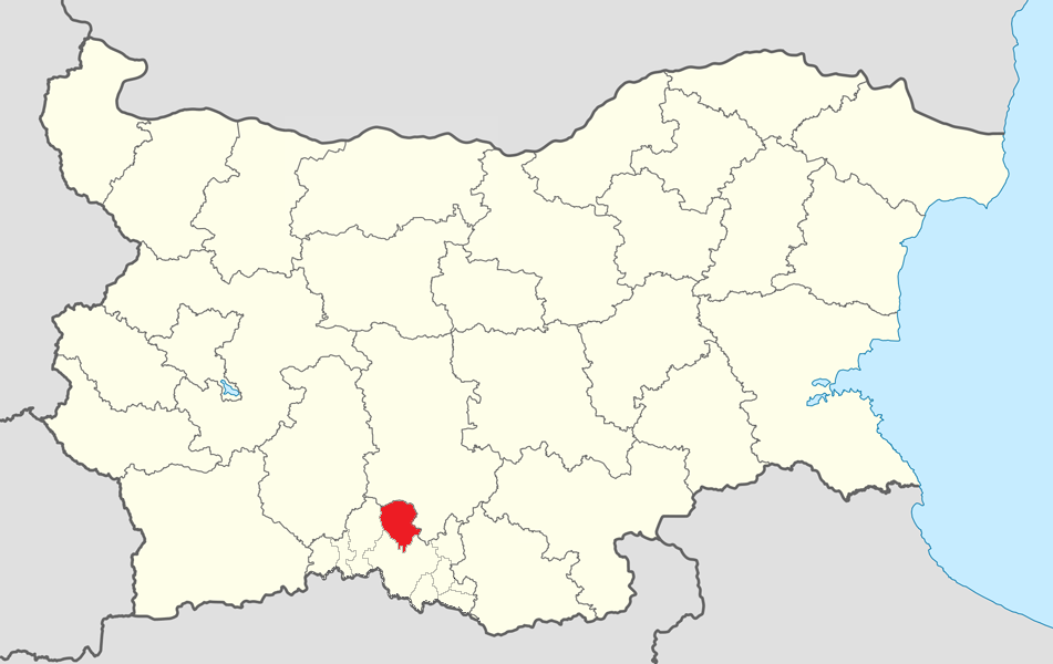 Location map of Chepelare Municipality within Bulgaria and Smolyan province